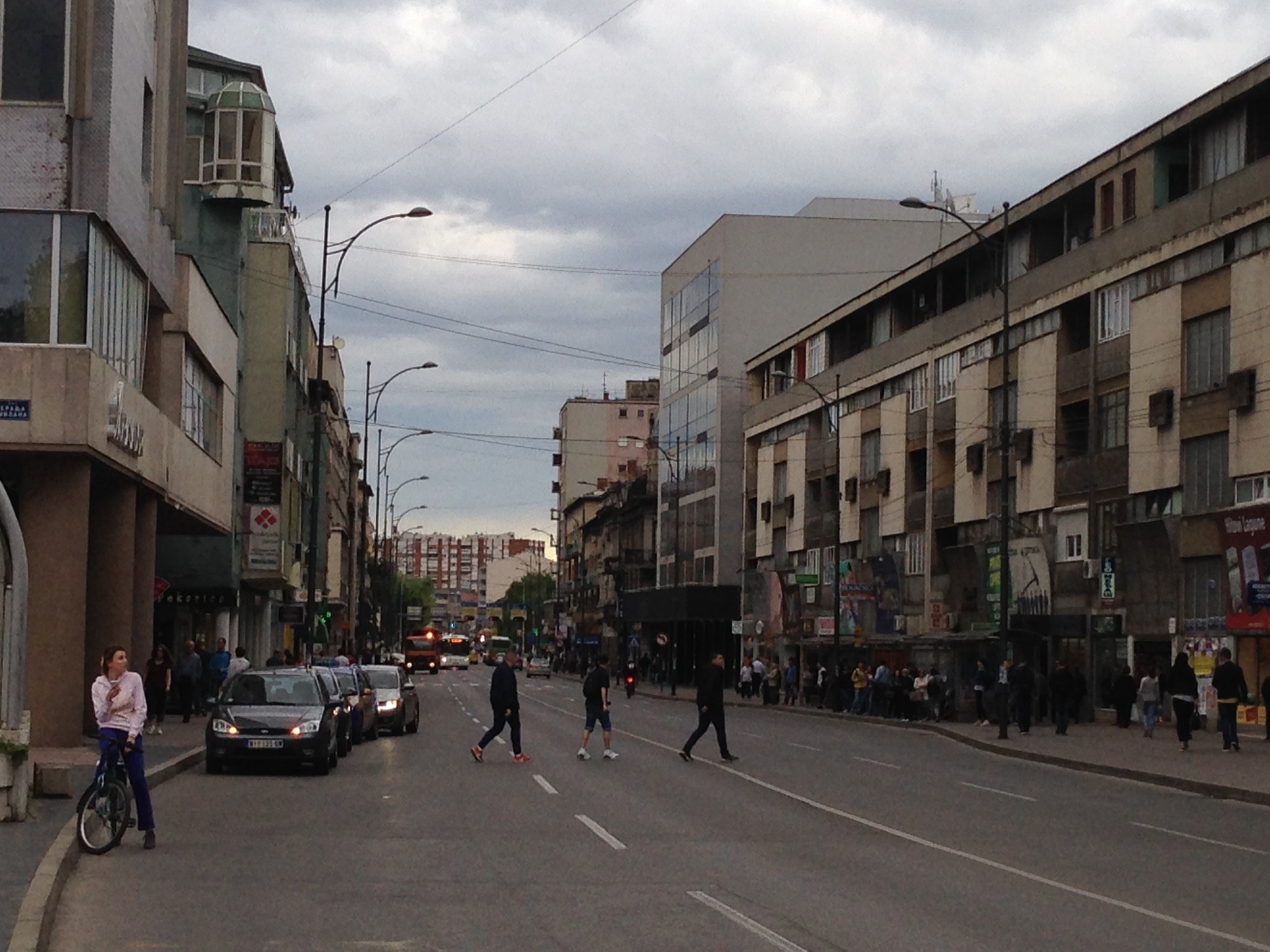 Street Vožd Karadjordje, Niš, Serbia